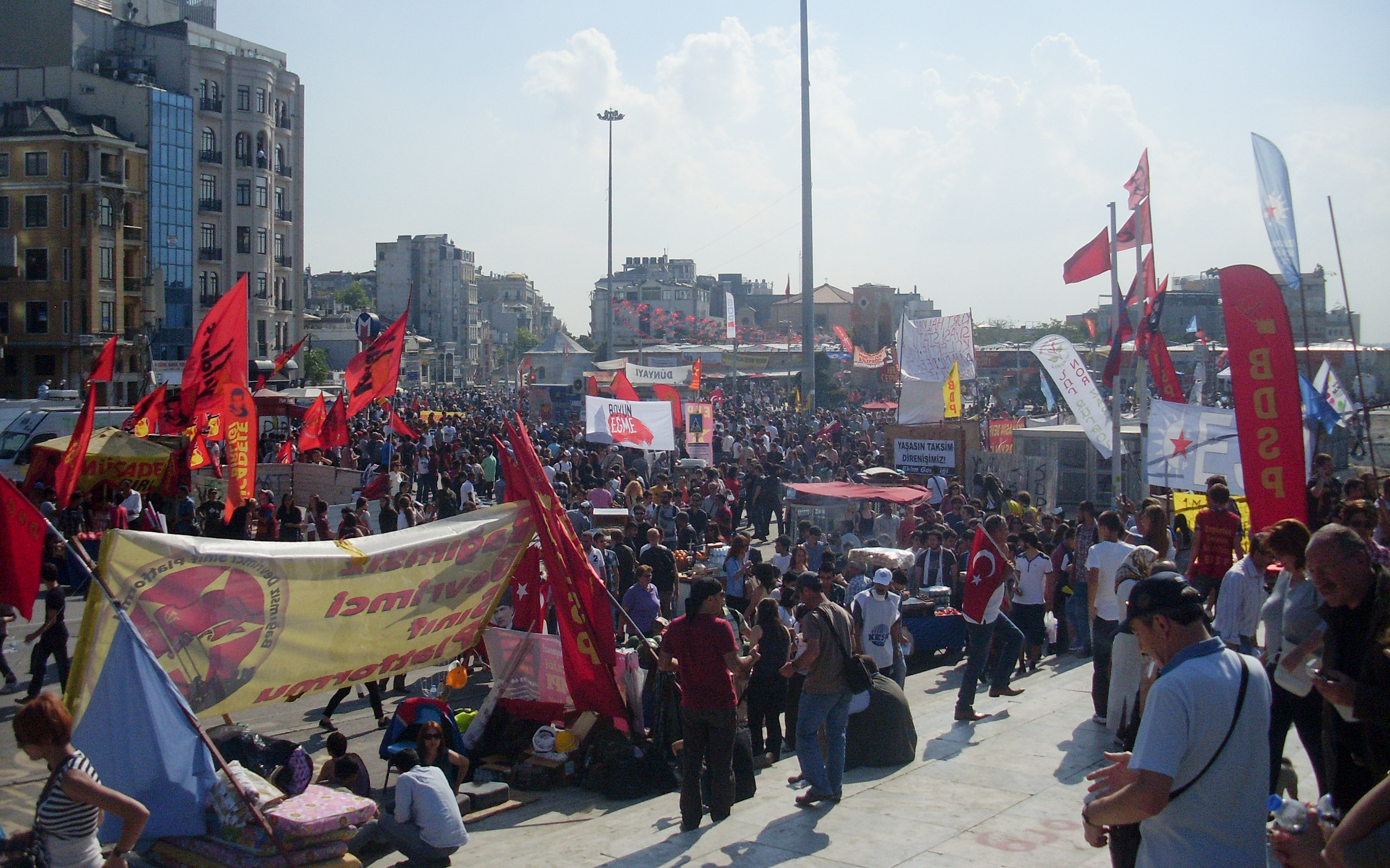 2013 Taksim Gezi Park protests, a view from Taksim Square on 4th June 2013